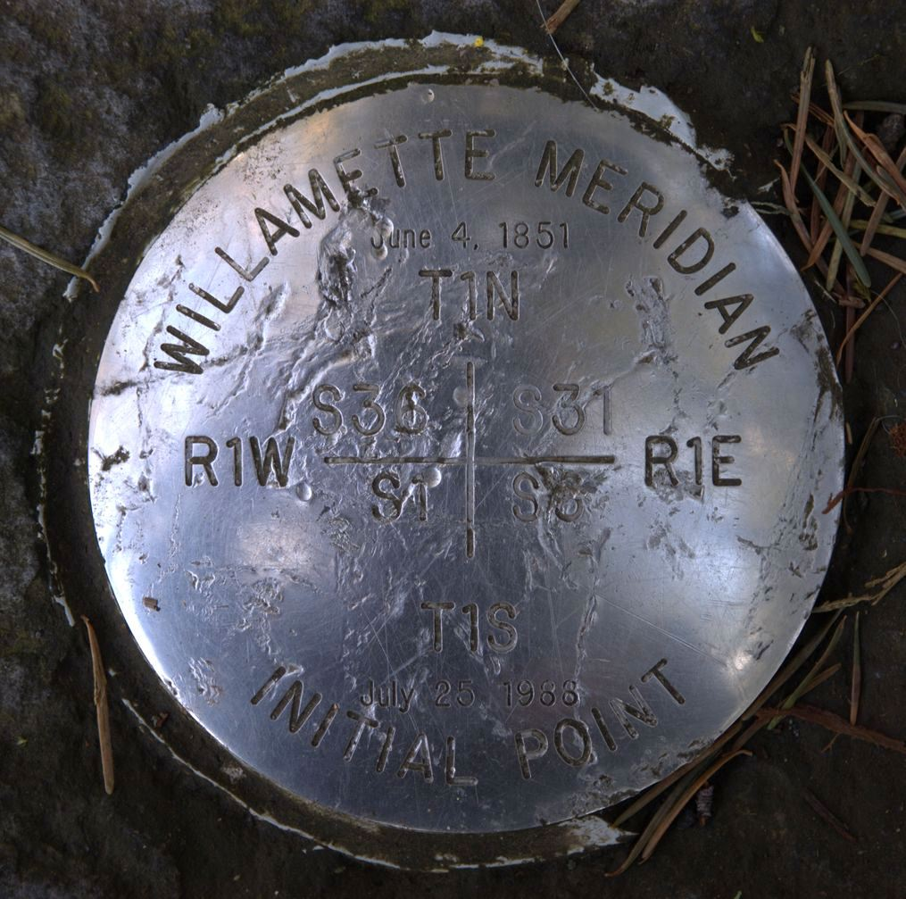 The photo was taken by me.